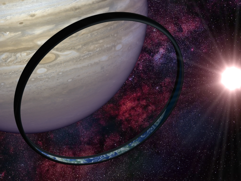 Artist's impression of an Orbital from the "Culture" setting of Iain M. Banks. Note that the scale of the Orbital depicted in this image is inaccurate; it is shown as being smaller than Jupiter (diameter 140,000 km) when in fact Orbitals are described as being on the order of 4,000,000 km in diameter. This caveat should be mentioned in the image caption.